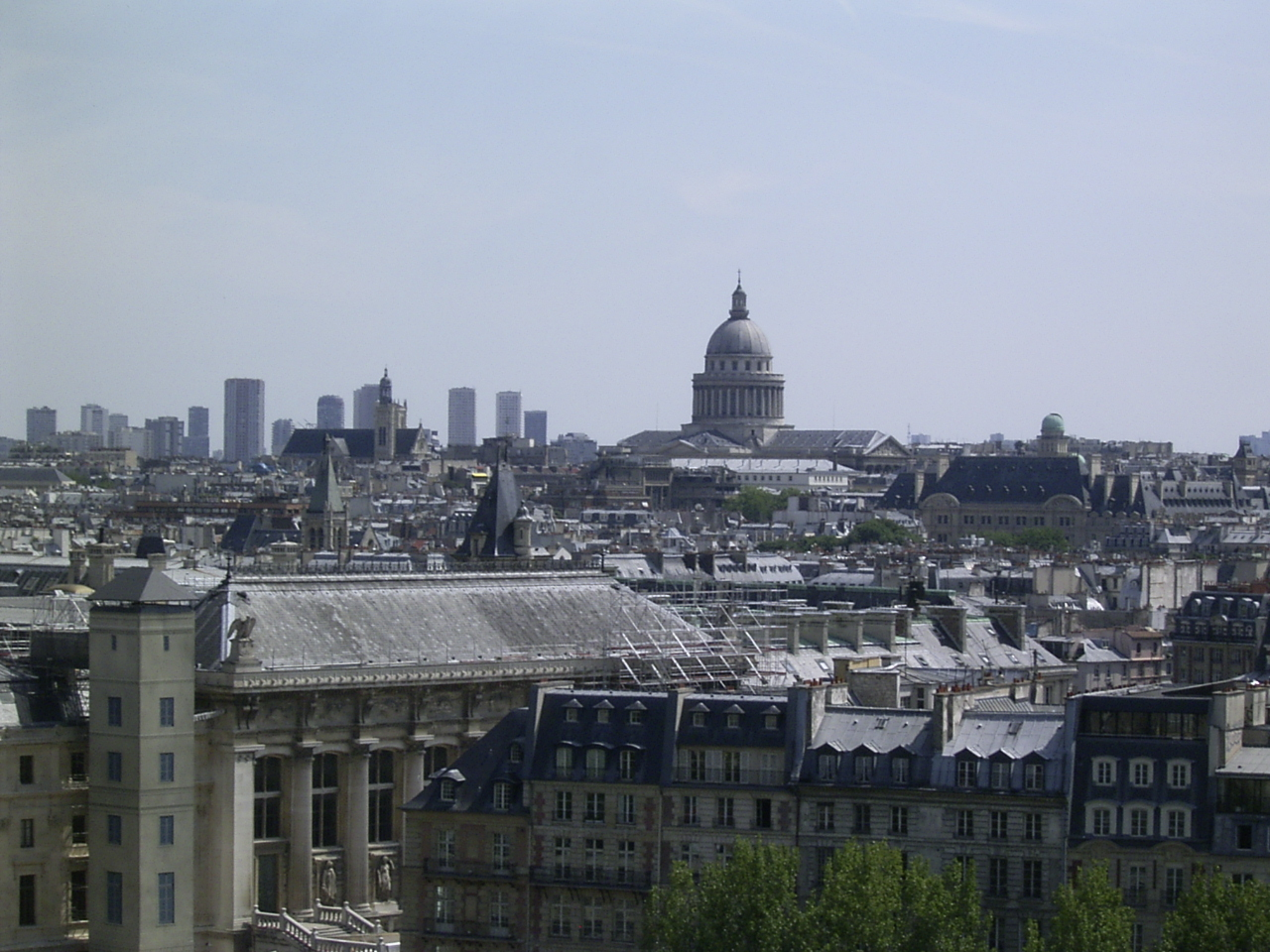 Pantheon in Paris from Montmartre